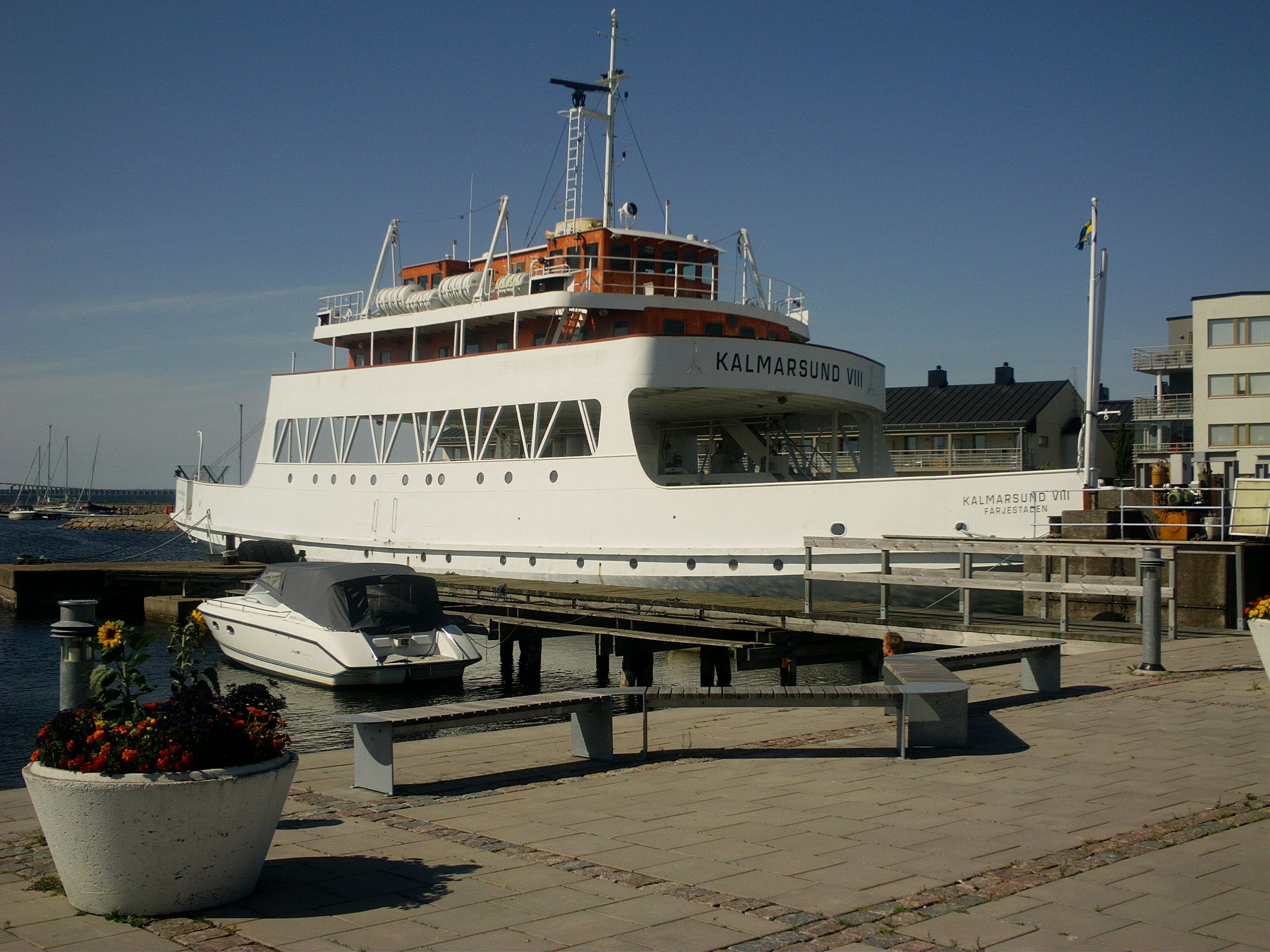 Swedish ferry Kalmarsund VIII in Färjestaden, Sweden